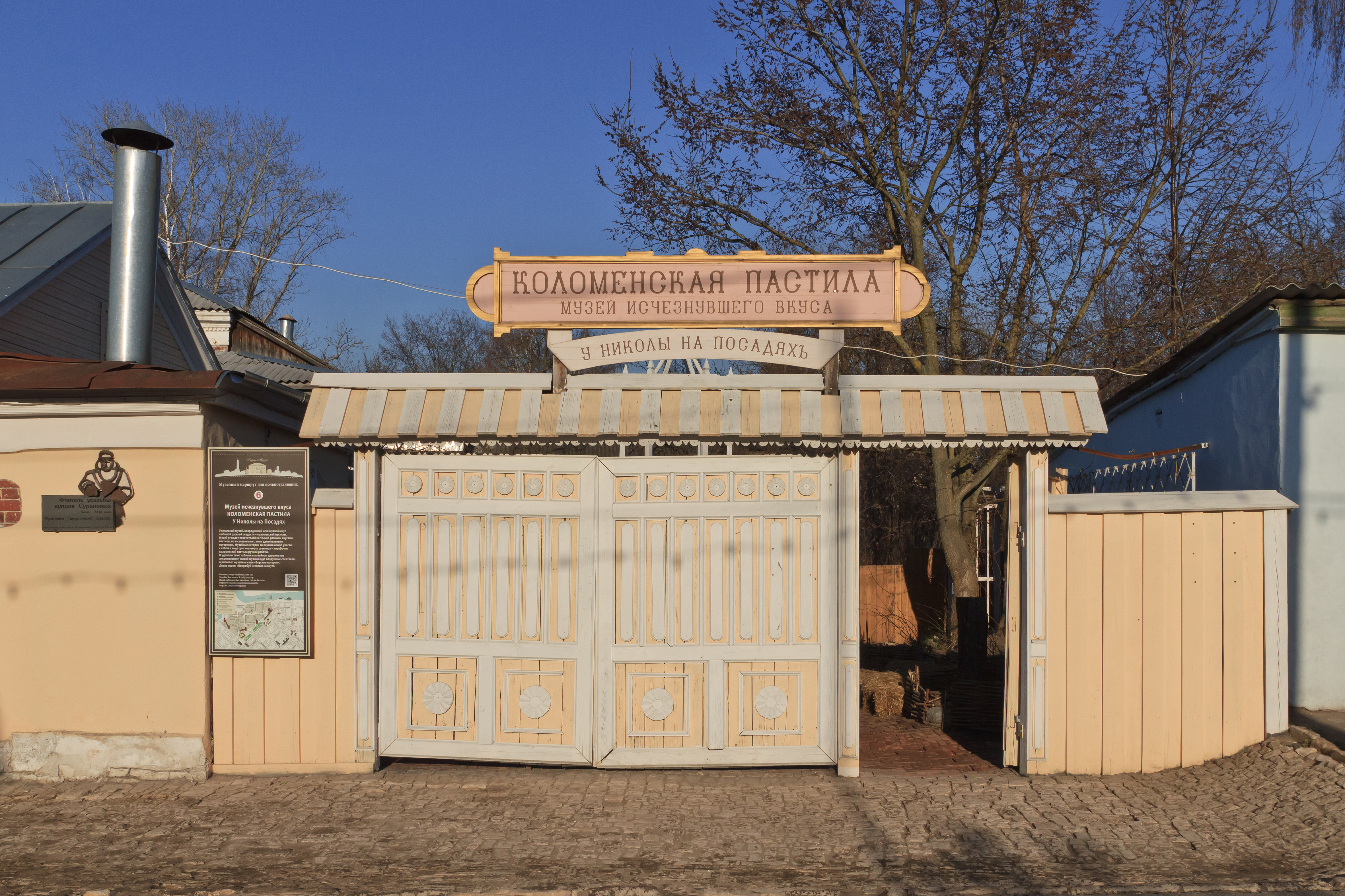 The gate of the Pastila Museum. Kolomna, Moscow Oblast, Russia.